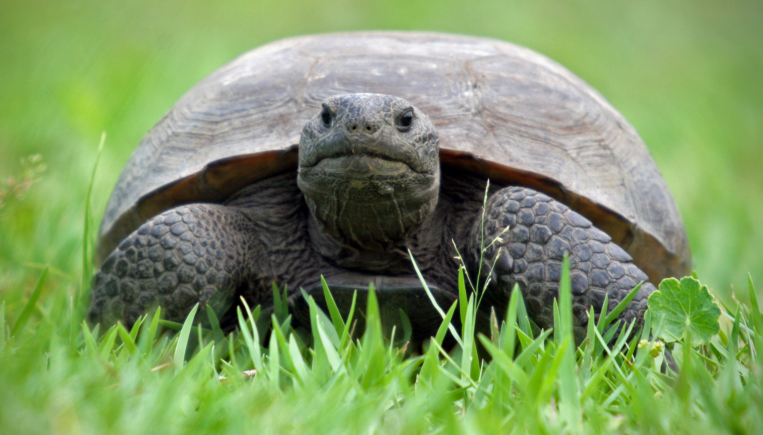 Photo of the endangered Florida Gopher Tortoise (Gopherus polyphemus) taken in the Guana Tolomato Matanzas Reserve, Florida. Photo taken at ground level using a 400mm lens.